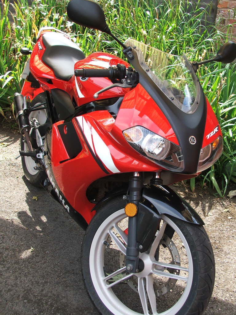 Yamaha TZR. I still have this, apparently.